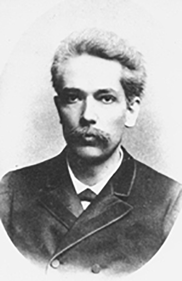 G. A. Wilken (1847-1891) was a Dutch anthropologist and ethnographer.